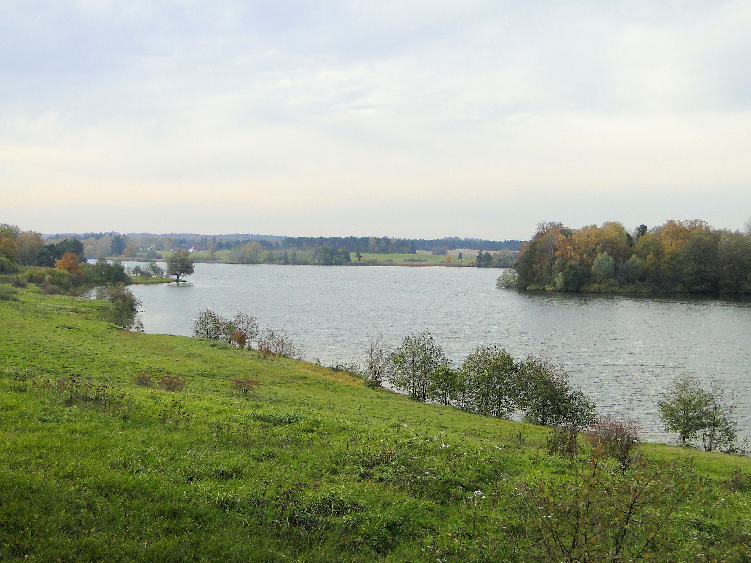 Lake Rödliner See in Groß Schönfeld, district Mecklenburg-Strelitz, Mecklenburg-Vorpommern, Germany